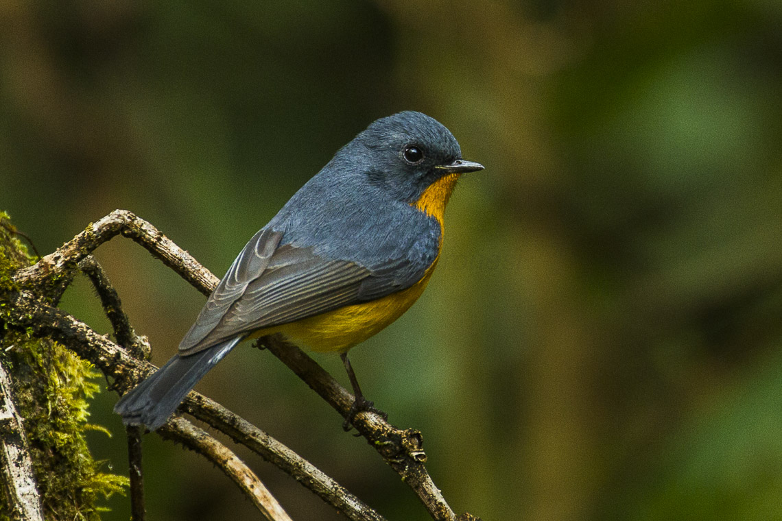 Slaty-backed Flycatcher - ThailandIMG_5516